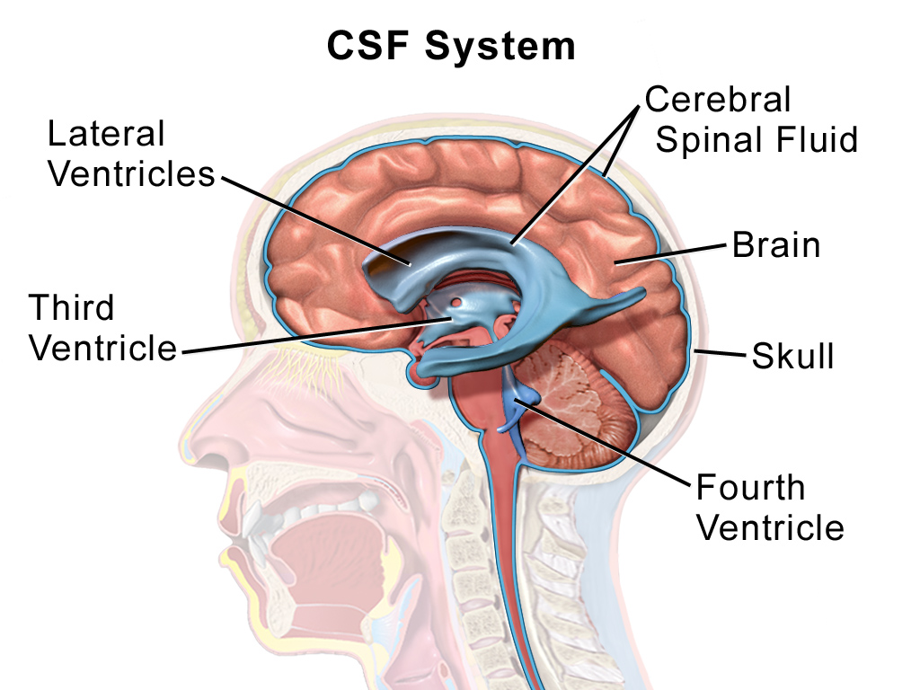 Cerebrospinal System. See a full animation of this medical topic.